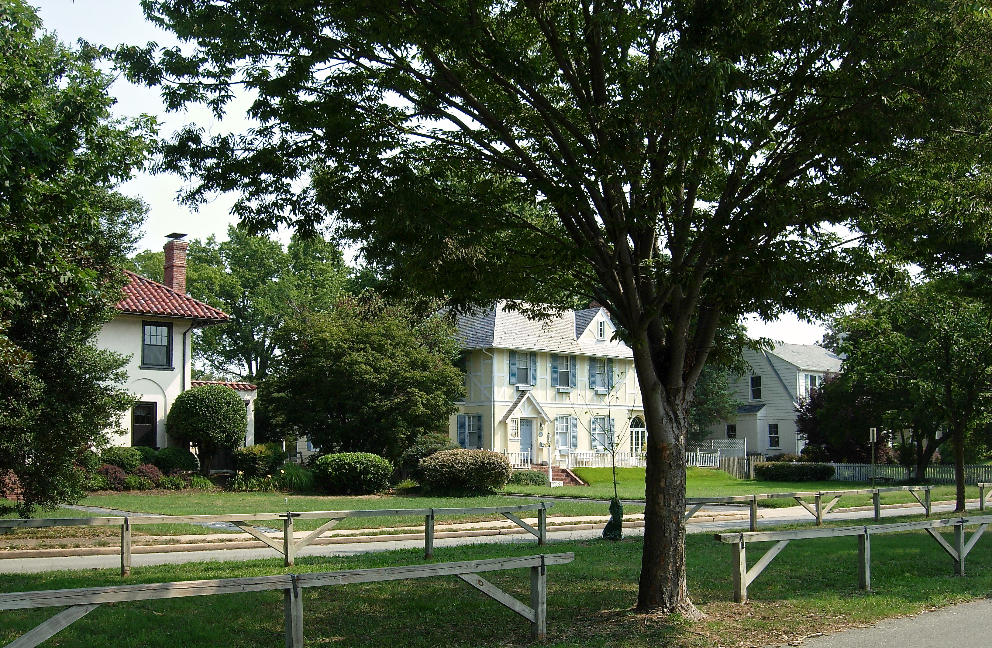 Laburnum Park Historic District, Richmod, VA